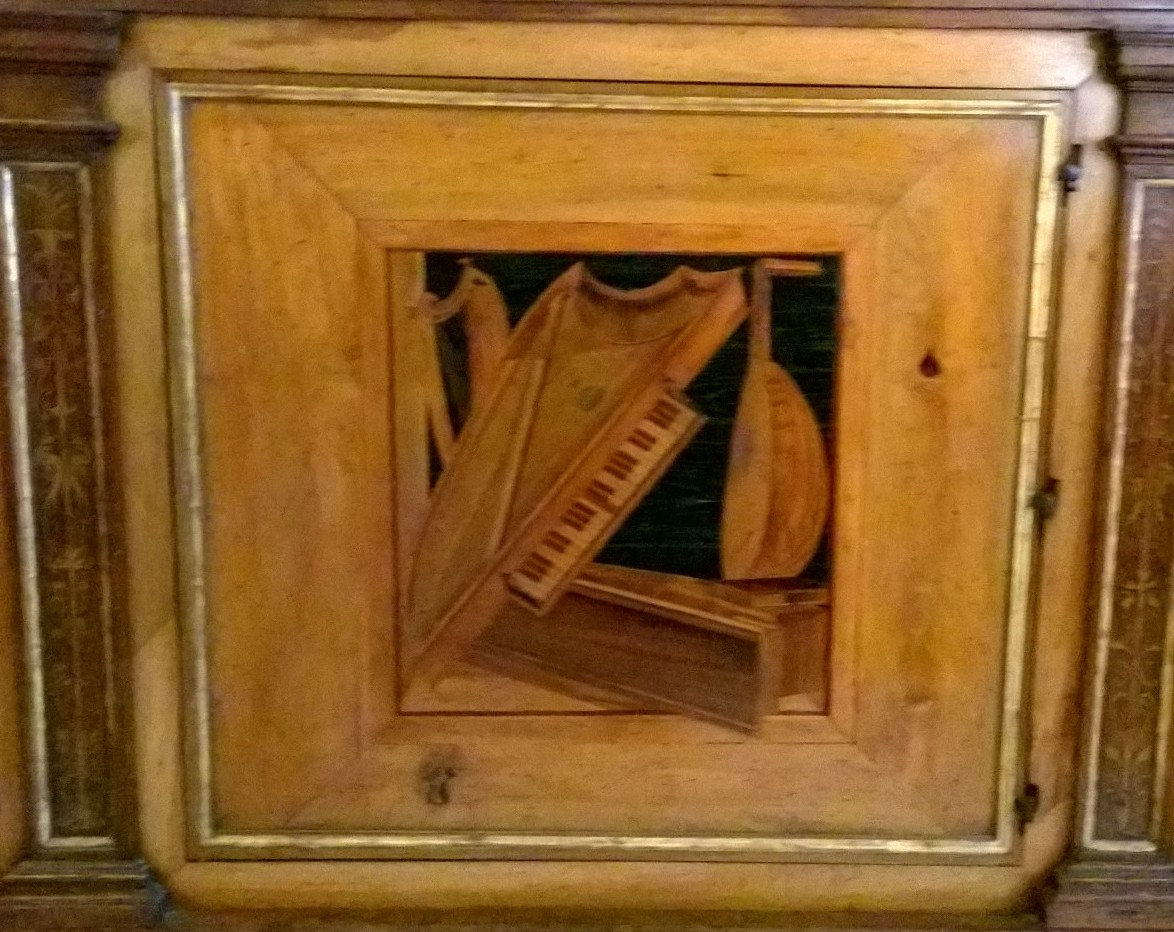 Detail of Study of Isabella d'Este in the Ducal Palace in Mantua